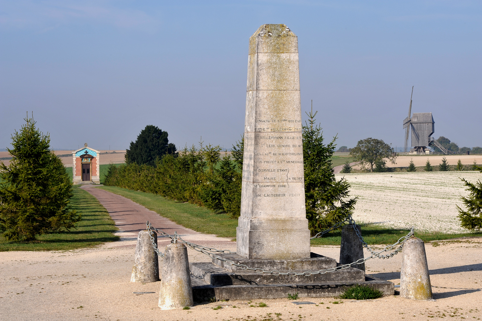 Valmy; windmill chapel of Princess Henriette Ginetti and obelisk in which lays the heart of Marshal François Christophe Kellermann; Marne, France.̺